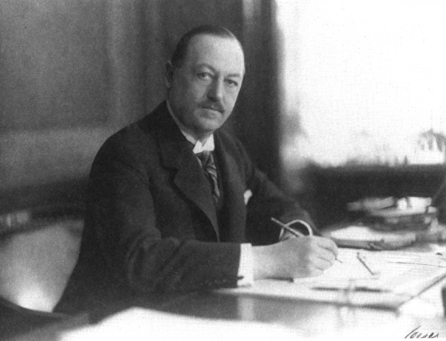 Oscar Rydbeck, banker, in his office at the bank "Skandinaviska Banken", Stockholm around 1930.